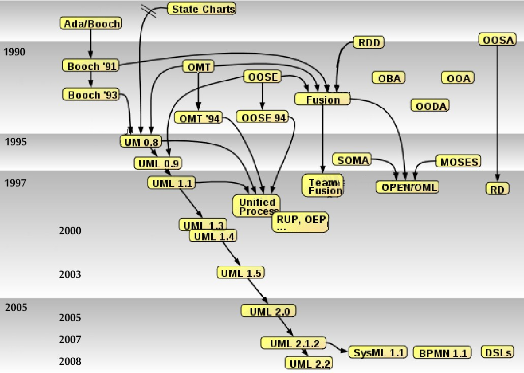 History of object oriented methods and notations